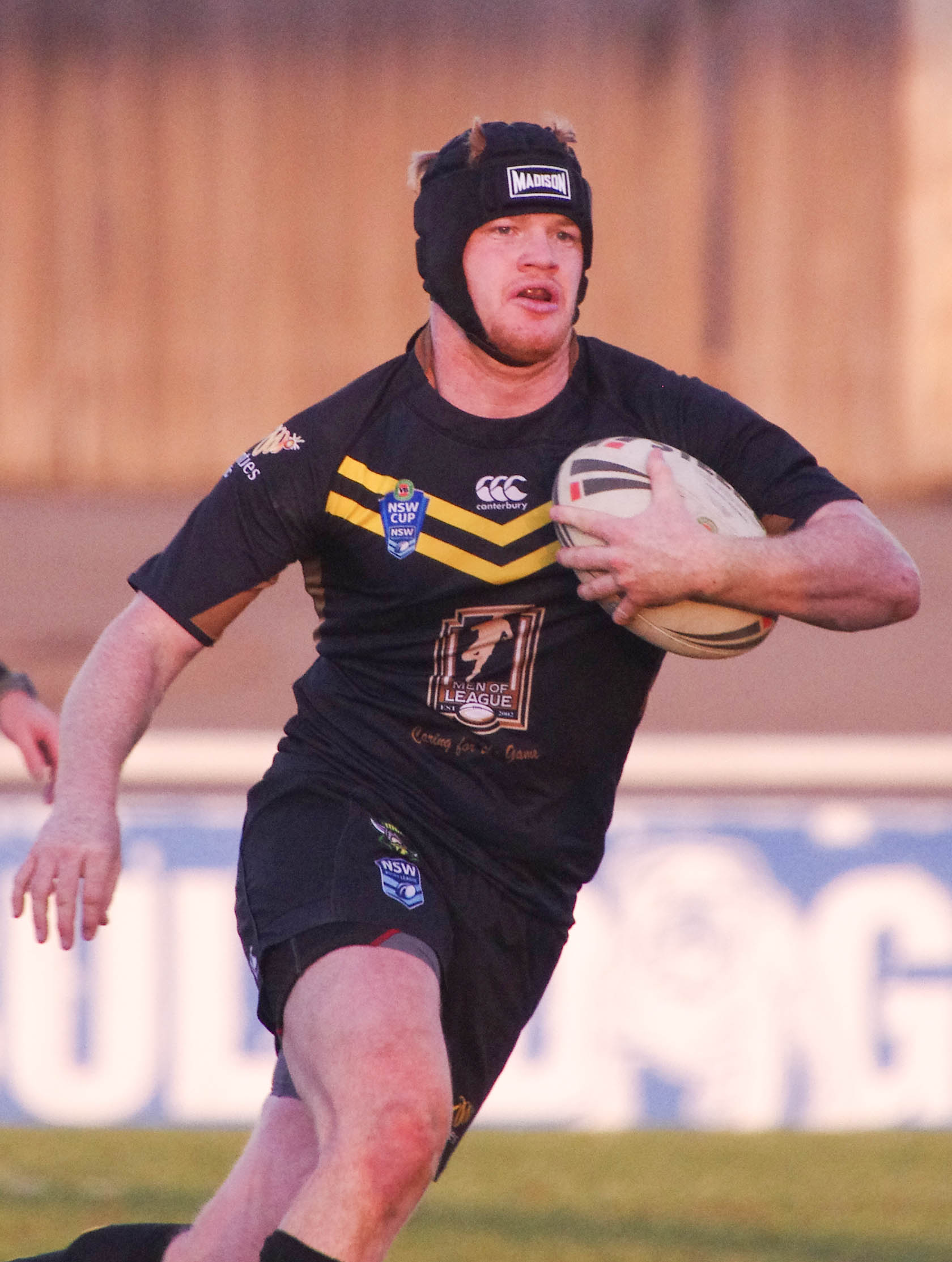 Joel Edwards